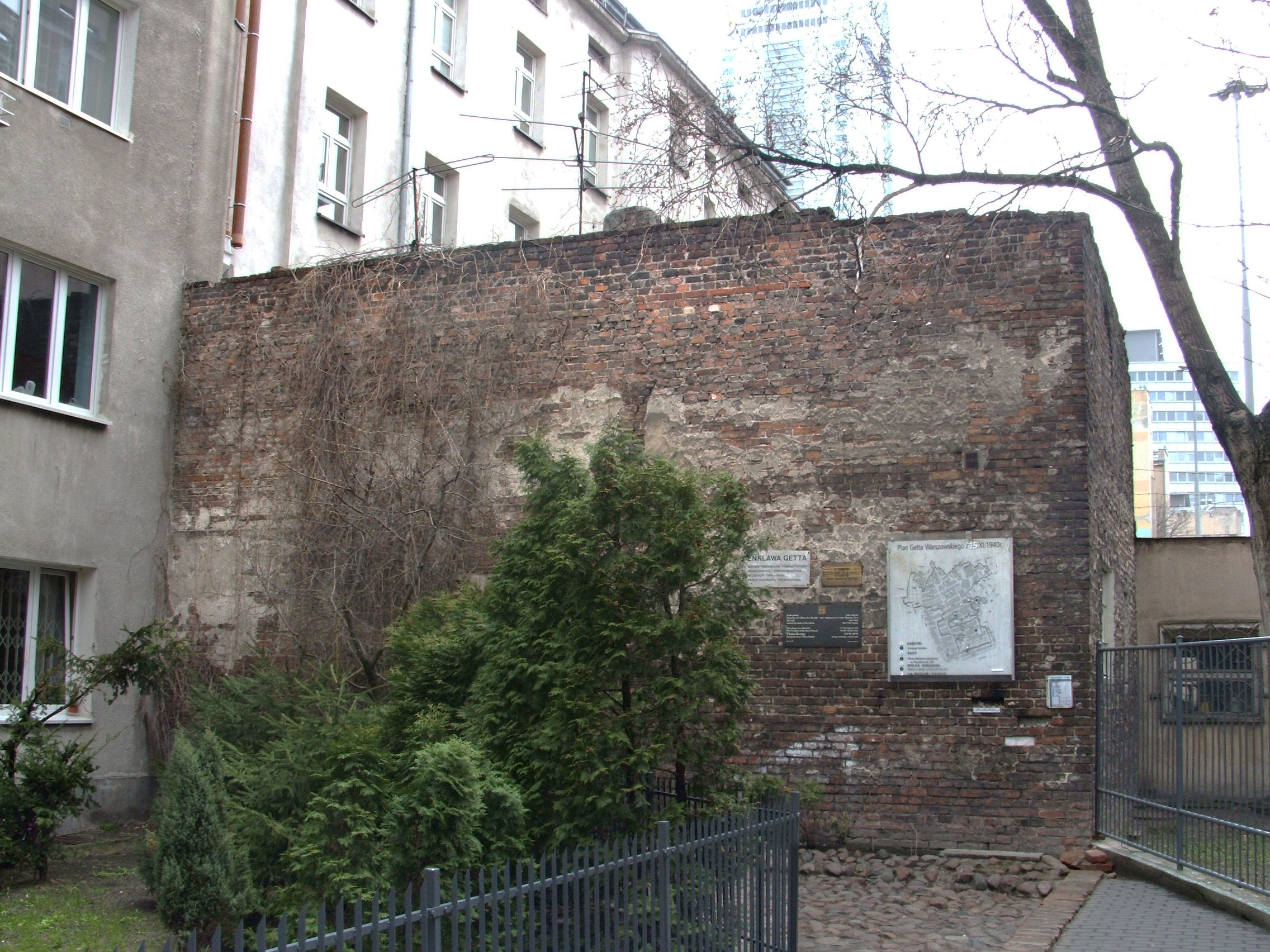 Remaining part of Warsaw Ghetto wall in a backyard of Złota 60.